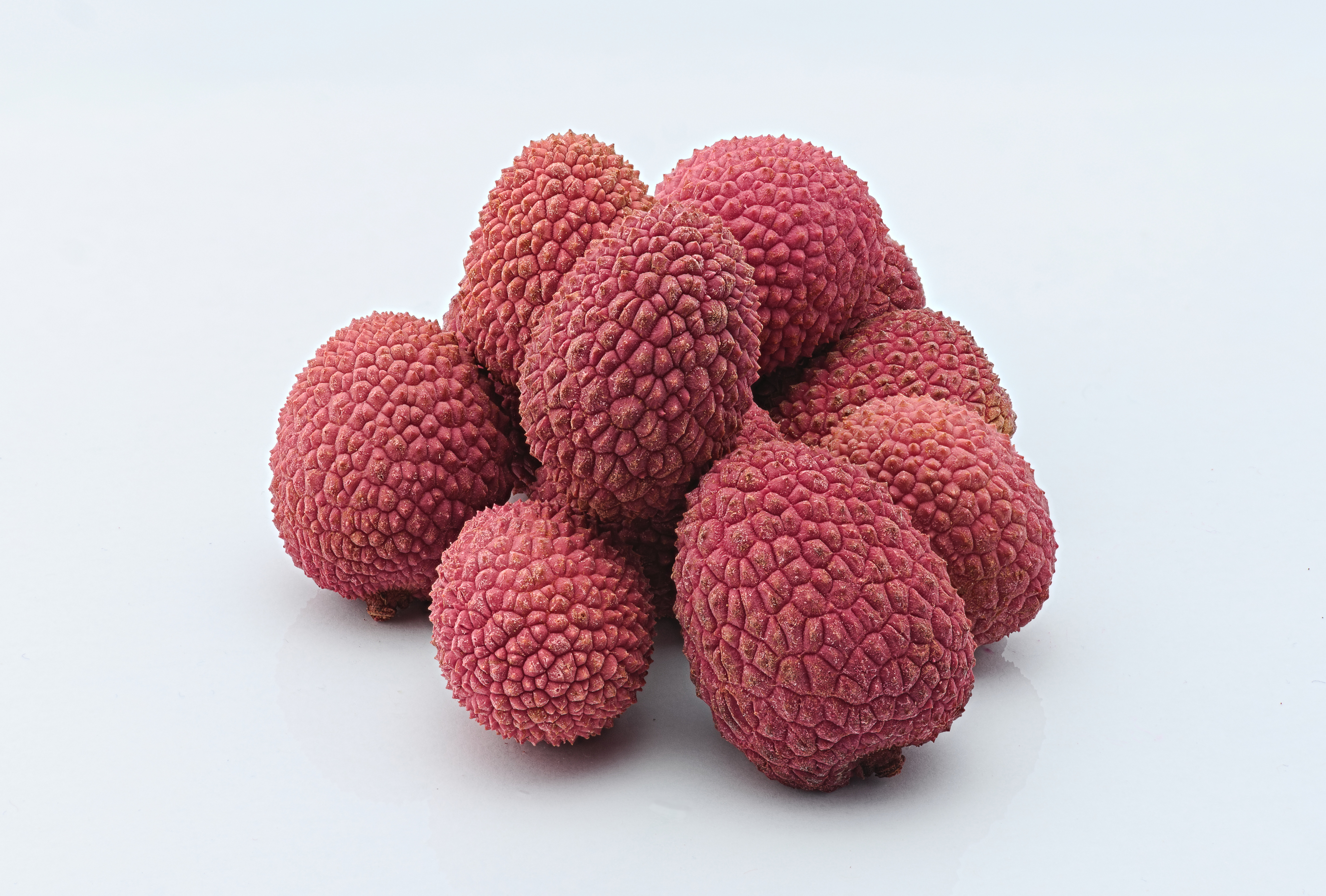 Litchi fruit (Litchi chinensis), image generated using focus stacking and 12 pictures